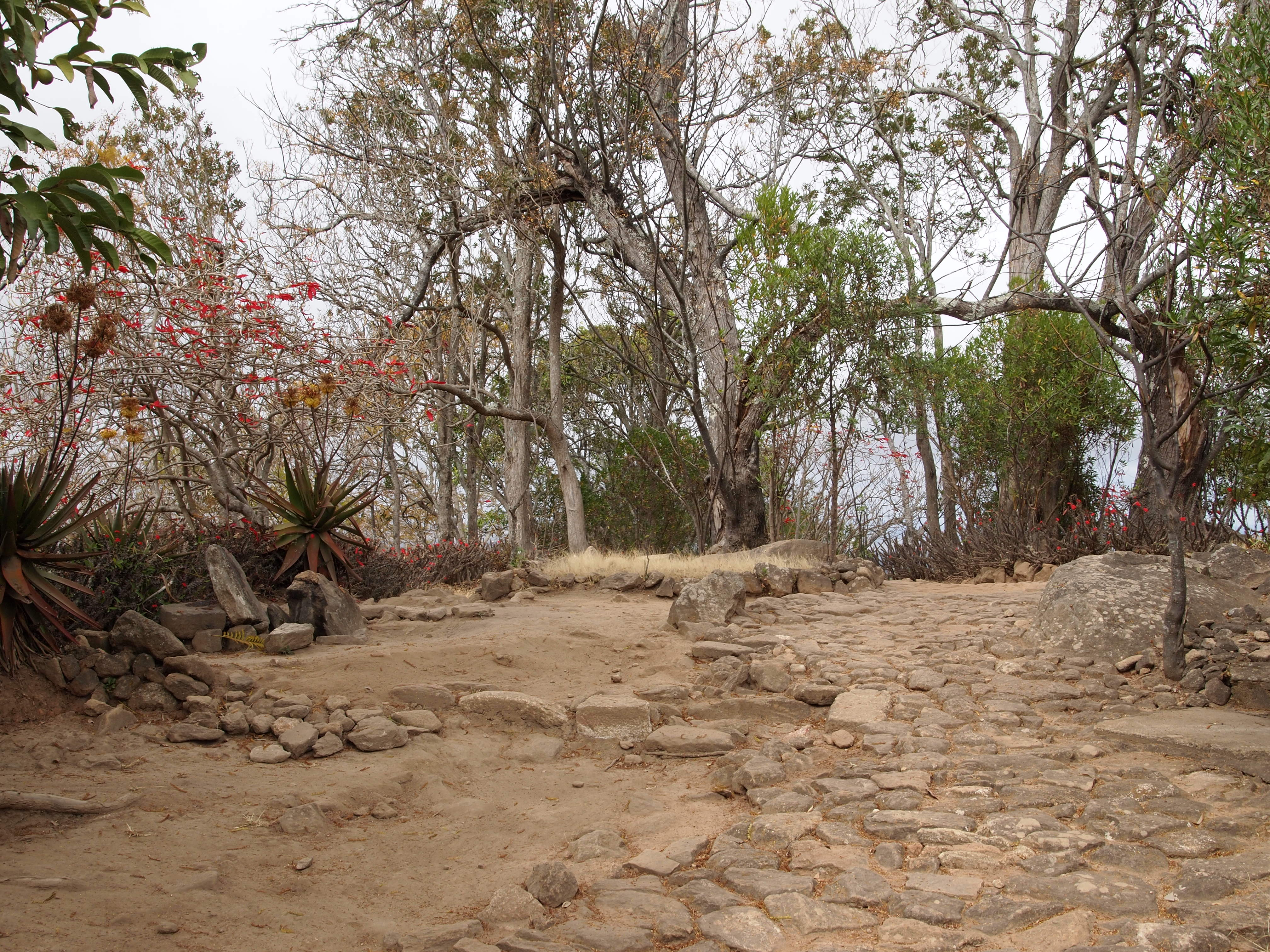 Nanjakana compound, established by King Andrianjafy in the late 18th century at the Rova of Ambohimanga in Madagascar